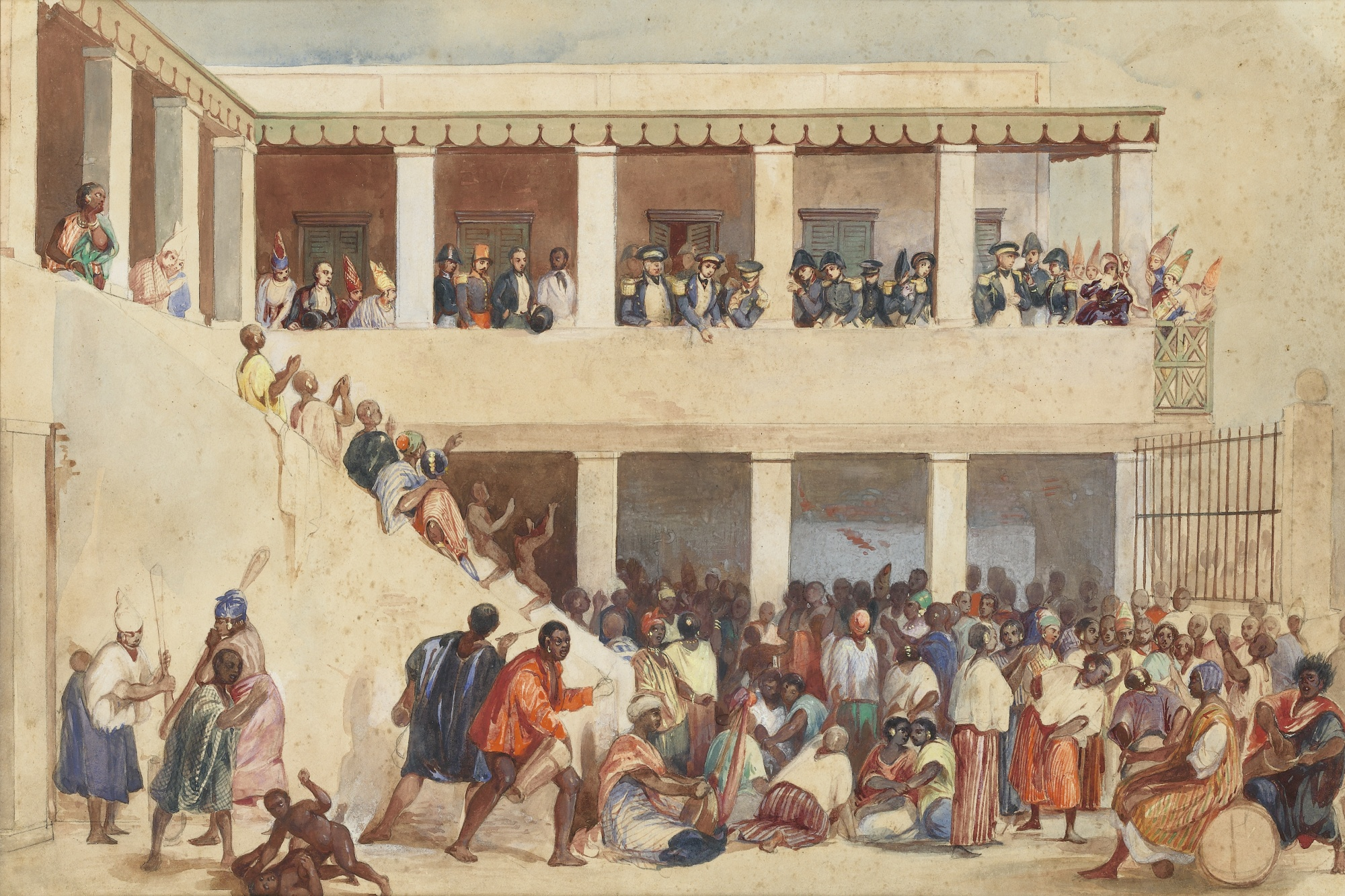 Watercolor by François d'Orléans, prince de Joinville (1818-1900) - Tam-tam à Gorée (1837)